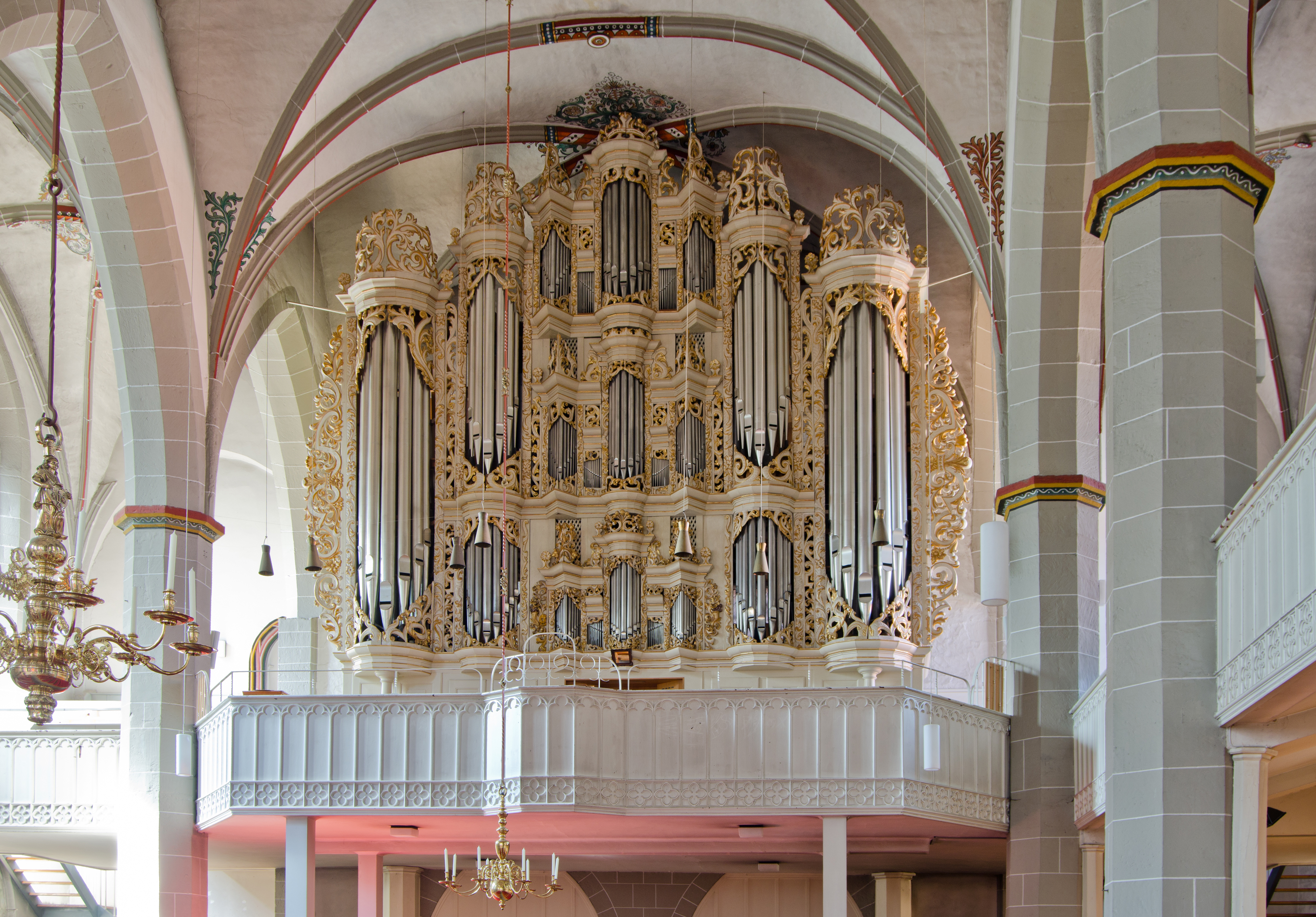 Northeim (Lower Saxony, Germany) – Lutheran Saint Sixtus Church – historical pipe organ This is a photograph of an architectural monument.It is on the list of cultural monuments of Northeim This photograph was taken with a Nikon D7000